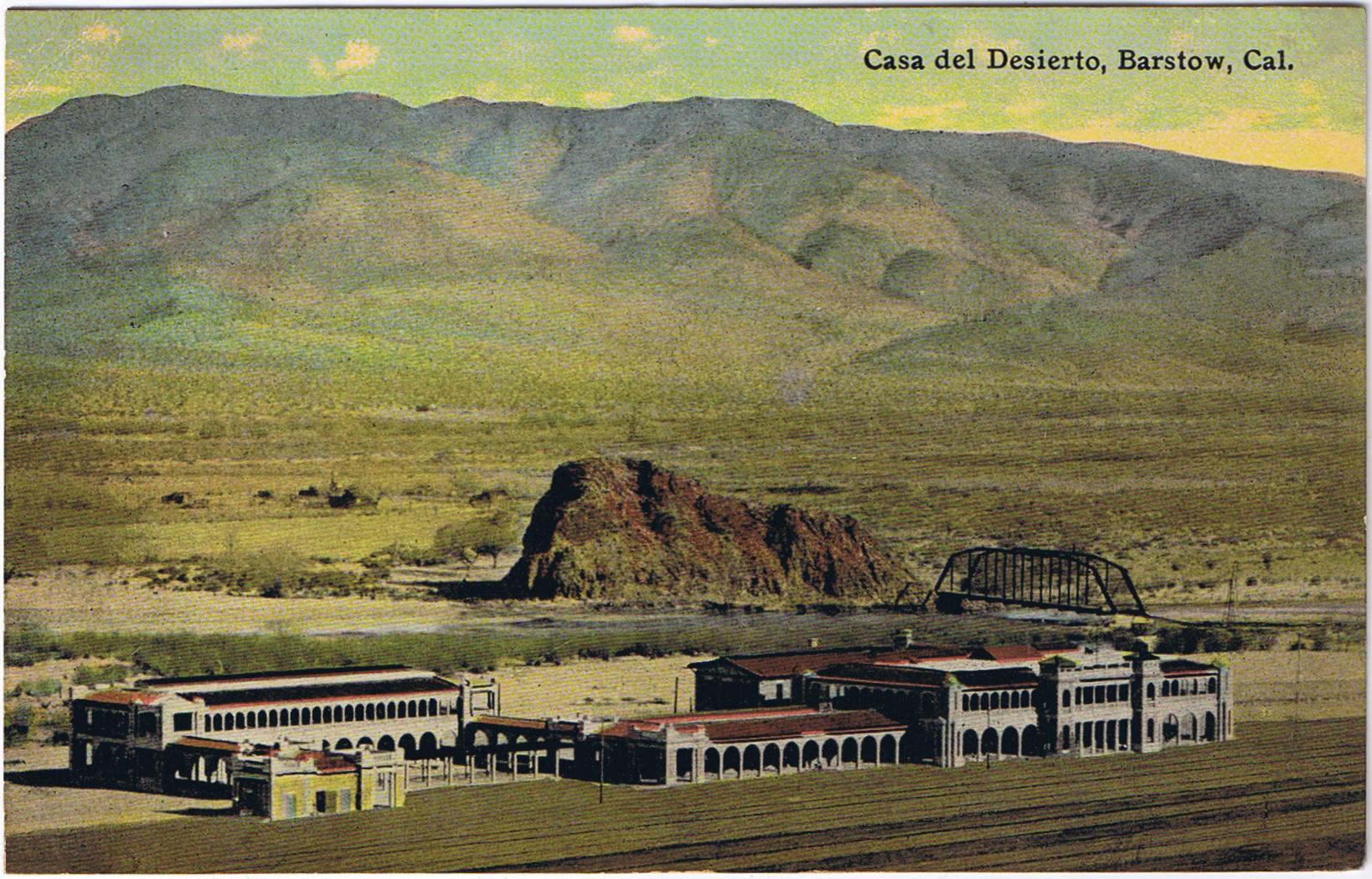 Glossy color postcard of Casa del Desierto, Barstow, California. Published by Fred Harvey. Made in U.S.A.